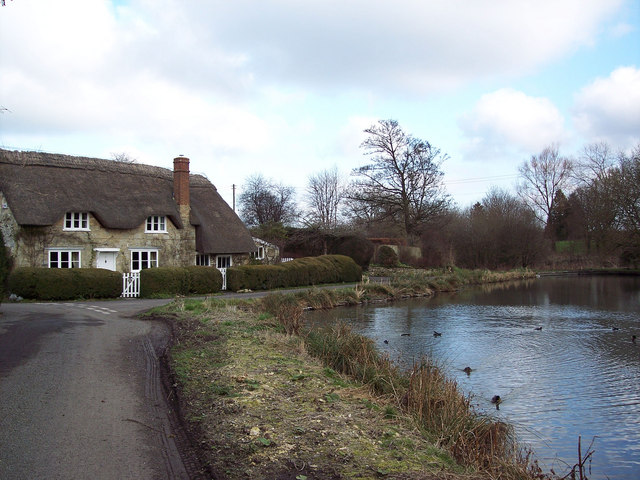 Sherrington Pond Here watercress was grown commercially until EU regulations declared it unfit for such a purpose.